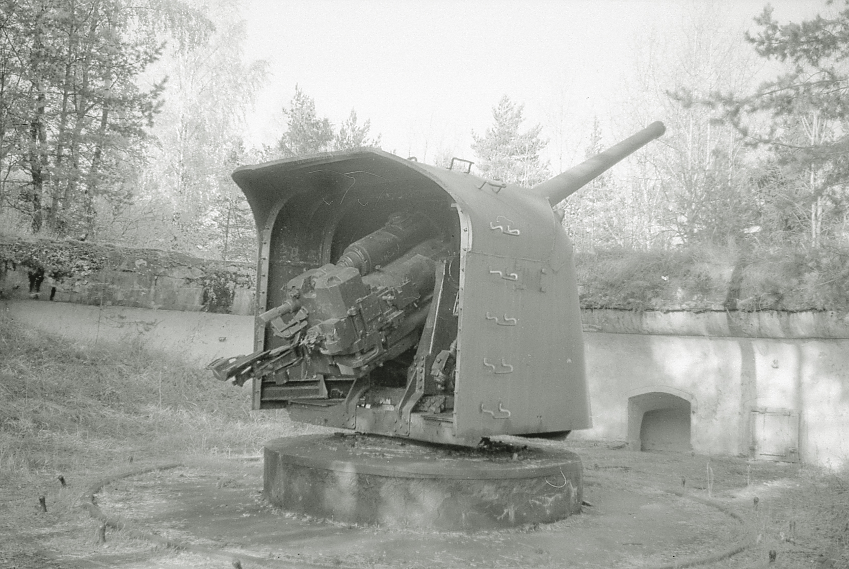 Soviet naval gun 130 mm/50 B13 Pattern 1936 at Krsanaya Gorka, Kronshtadt.